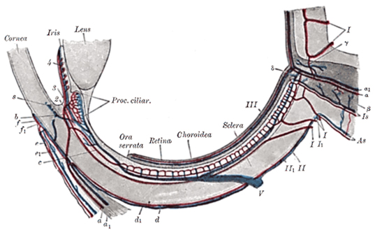 Gray's Anatomy plate. Diagram of the blood vessels of the eye, as seen in a horizontal section. (Leber, after Stöhr.). Course of vasa centralia retinæ: a. Arteria; a1. Vena centralis retinæ; B. Anastomosis with vessels of outer coats; C. Anastomosis with branches of short posterior ciliary arteries; D. Anastomosis with chorioideal vessels. Course of vasa ciliar. postic. brev.: I. Arteriæ, and I1. Venæ ciliar. postic. brev.; II. Episcleral artery; II1. Episcleral vein; III. Capillaries of lamina choriocapillaris. Course of vasa ciliar. postic. long.: 1. a. ciliar. post. longa; 2. Circulus iridis major cut across; 3. Branches to ciliary body; 4. Branches to iris. Course of vasa ciliar. ant.: a. Arteria. a1. Vena ciliar. ant.; b. Junction with the circulus iridis major; c. Junction with lamina choriocapill; d. Arterial, and d1. Venous episcleral branches; e. Arterial, and e1. Venous branches to conjunctiva scleræ; f. Arterial, and f1. Venous branches to corneal border. V. Vena vorticos; S. Transverse section of sinus venosus scleræ.